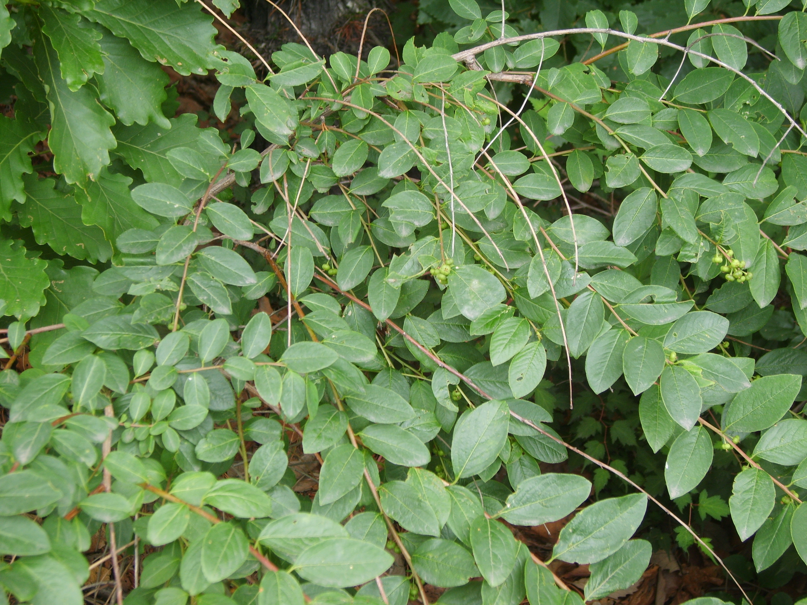 Securinega suffruticosa in Bupyung, Korea